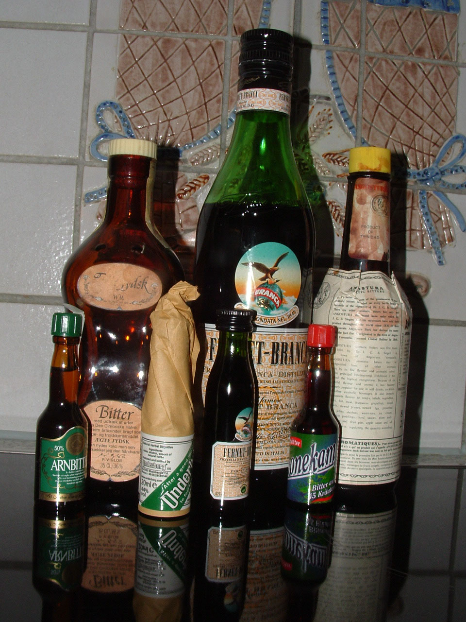 Bitter- drink-bottles from own collection Own photo of yesterday Feb.6 2007